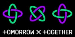 TXT's logo from The Dream Chapter: Eternity